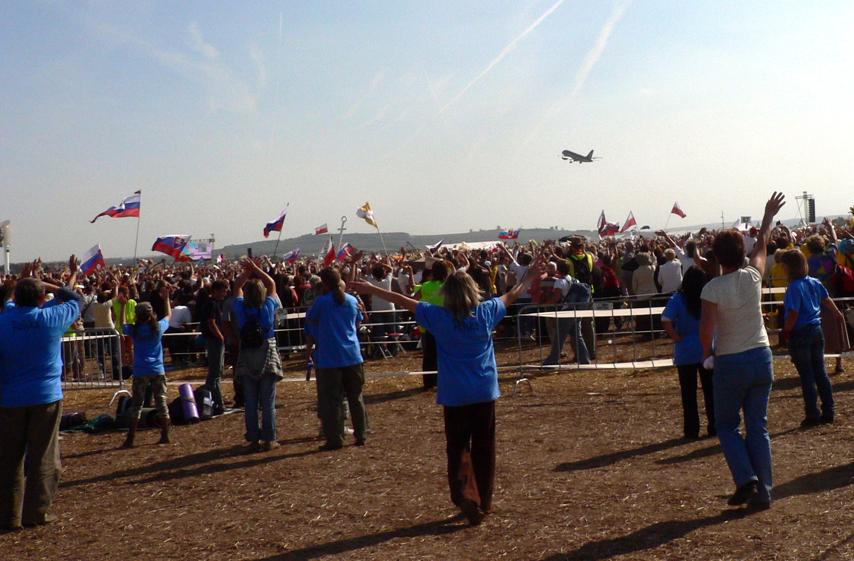 Pope Benedict XVI in Brno, Czech Republic (Pope is going back to Prague)